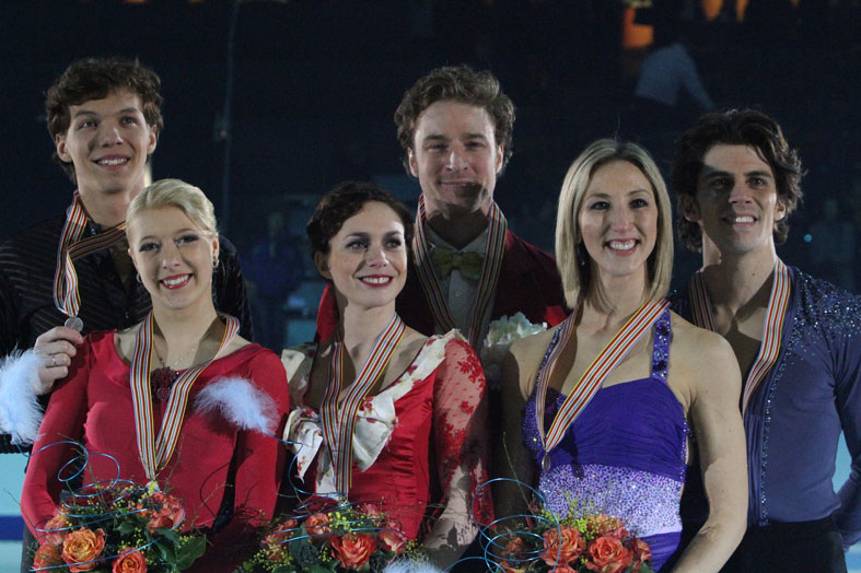 The ice dancing podium at the 2011 European Figure Skating Championships. From left: Ekaterina Bobrova / Dmitri Soloviev (2), Nathalie Péchalat / Fabian Bourzat (1) and Sinead Kerr / John Kerr (3)